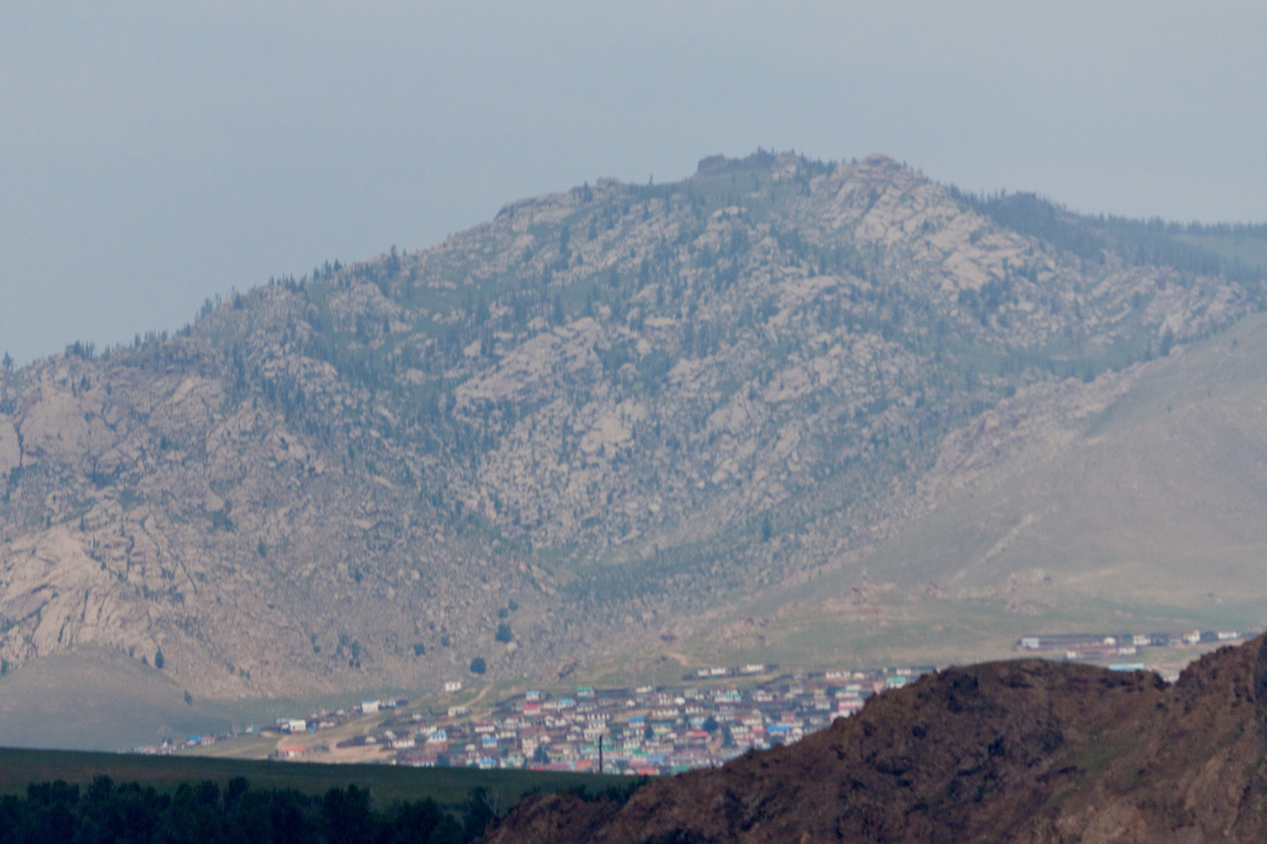 Tsetserleg city from the south with Bulgan Mountain at the back